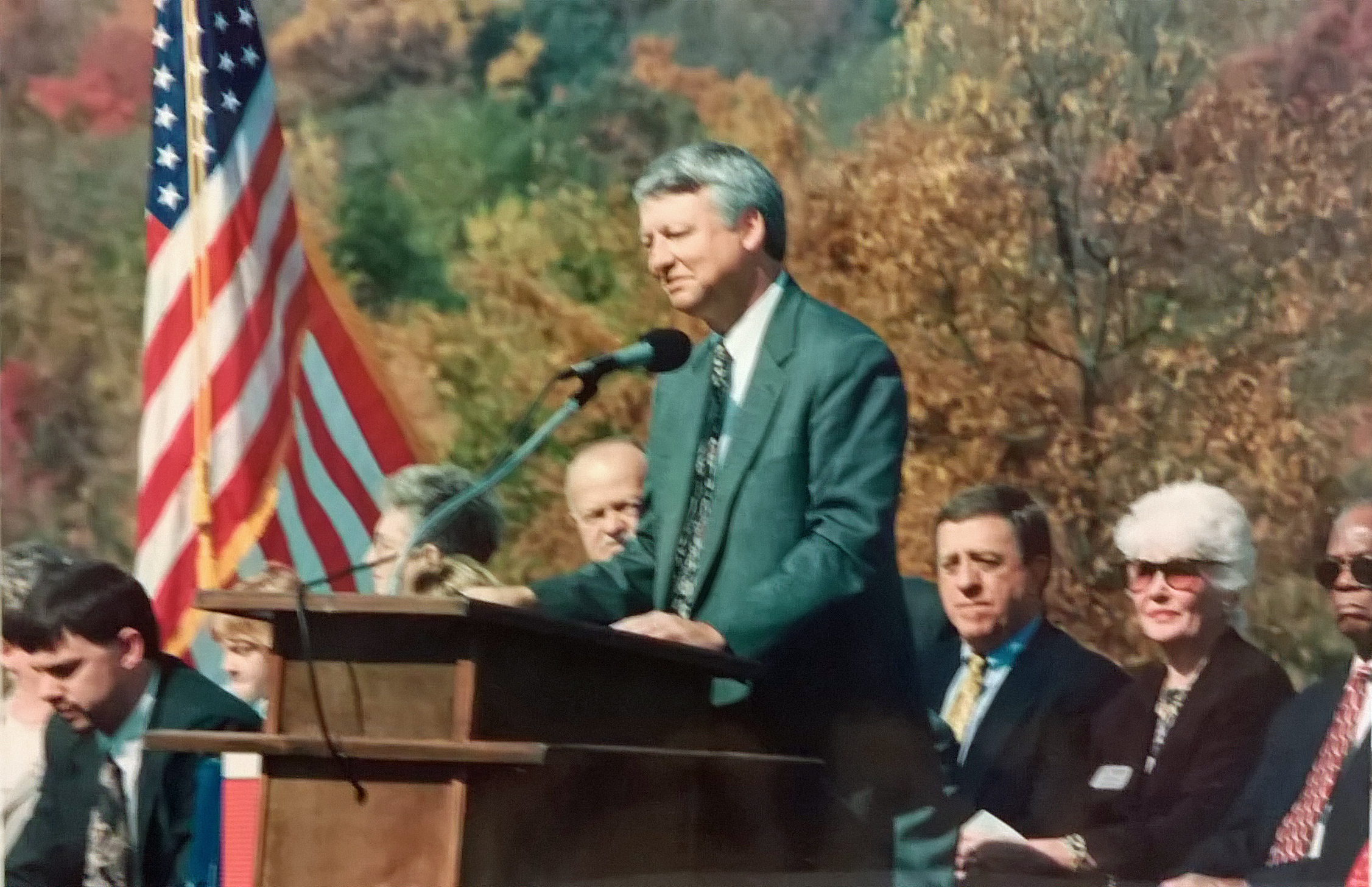 A man speaks at the J.J. Webster Highway dedication ceremony in front of Dalton L. McMichael High School